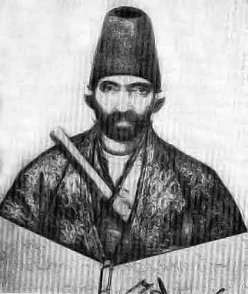 Sani ol molk